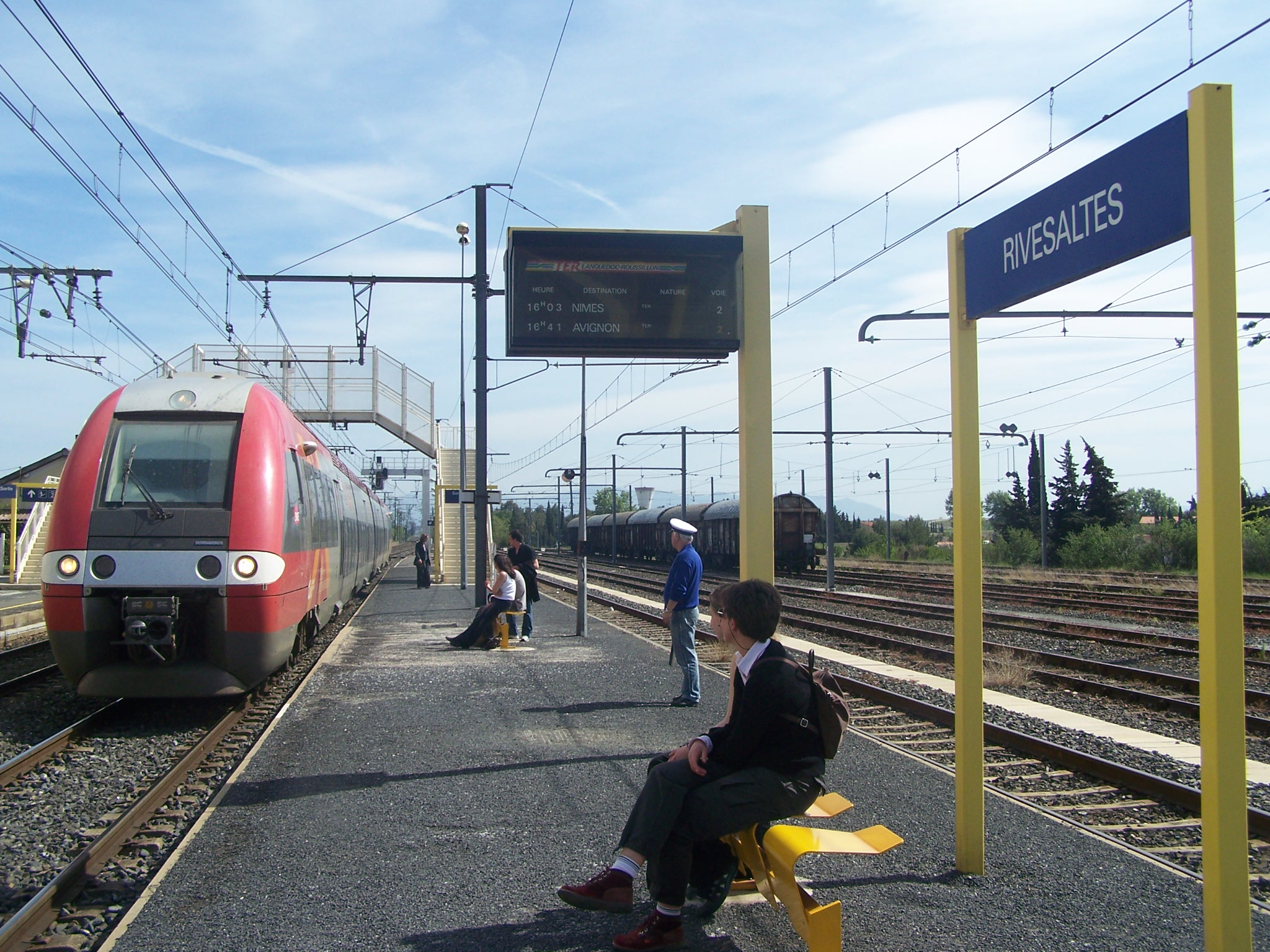 Arrival of a French regional train coming from Perpignan and bound for Nîmes at Rivesaltes station, in Pyrénées-Orientales.